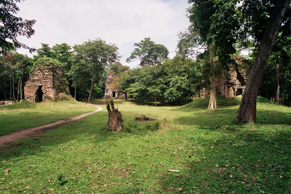 S Group. Sambor Prei Kuk. Cambodia